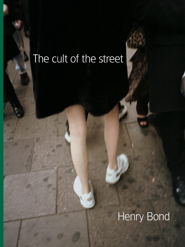 Cover of Henry Bond fashion photography book The cult of the street